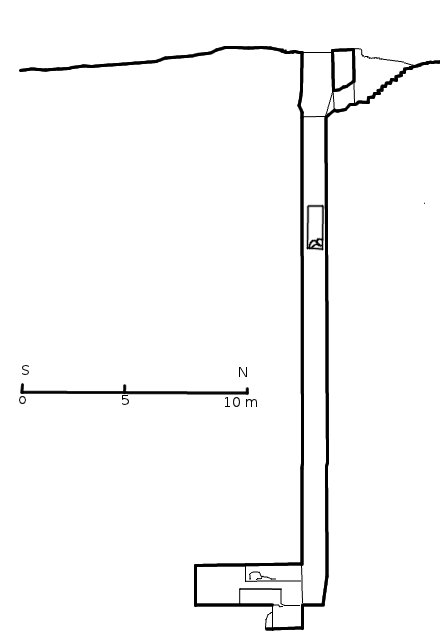 Section of the shaft tomb of Hetepheres I. at Giza (G7000x)